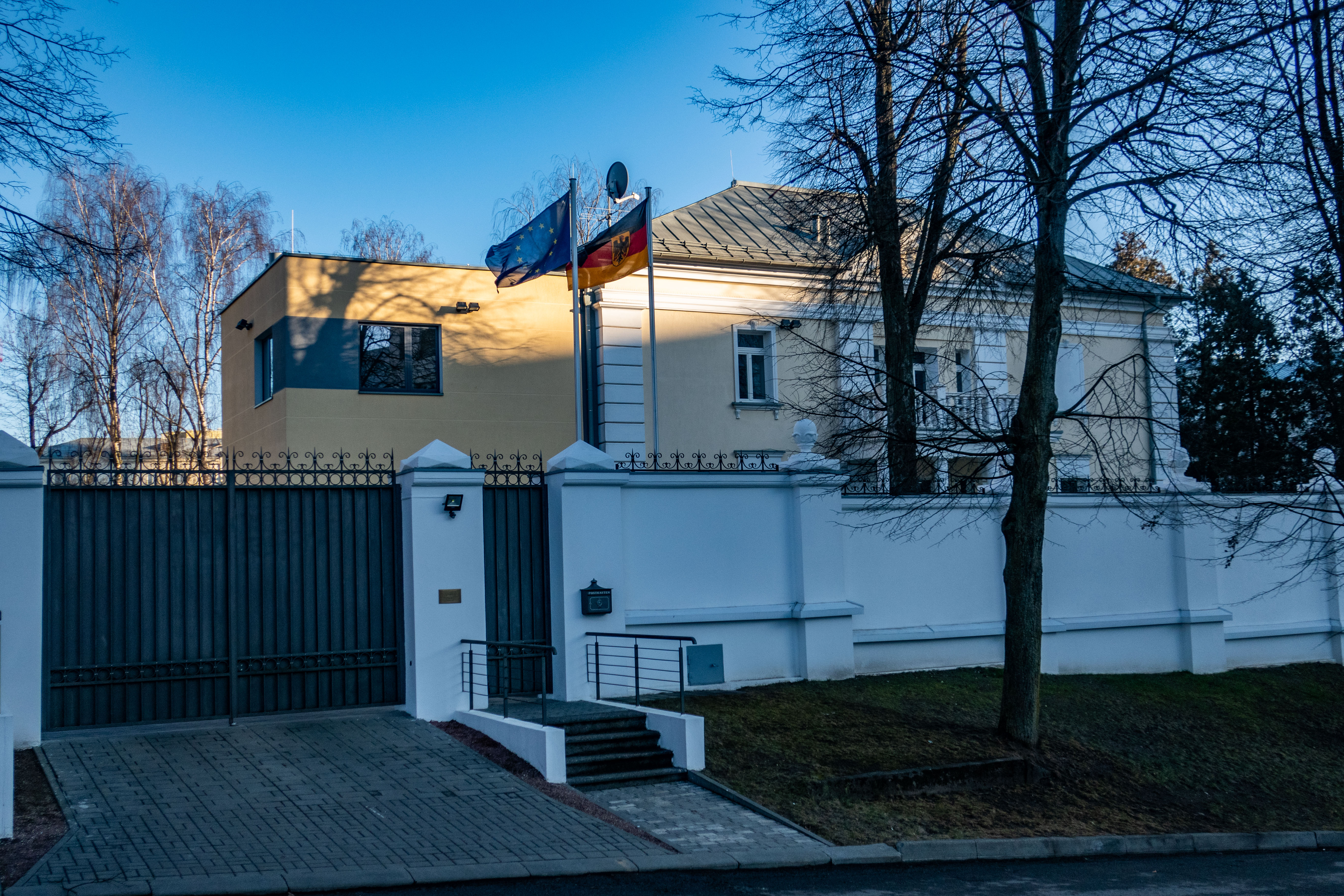 Embassy of Germany in Belarus. Minsk, Belarus